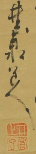 Enryo Inoue's signature